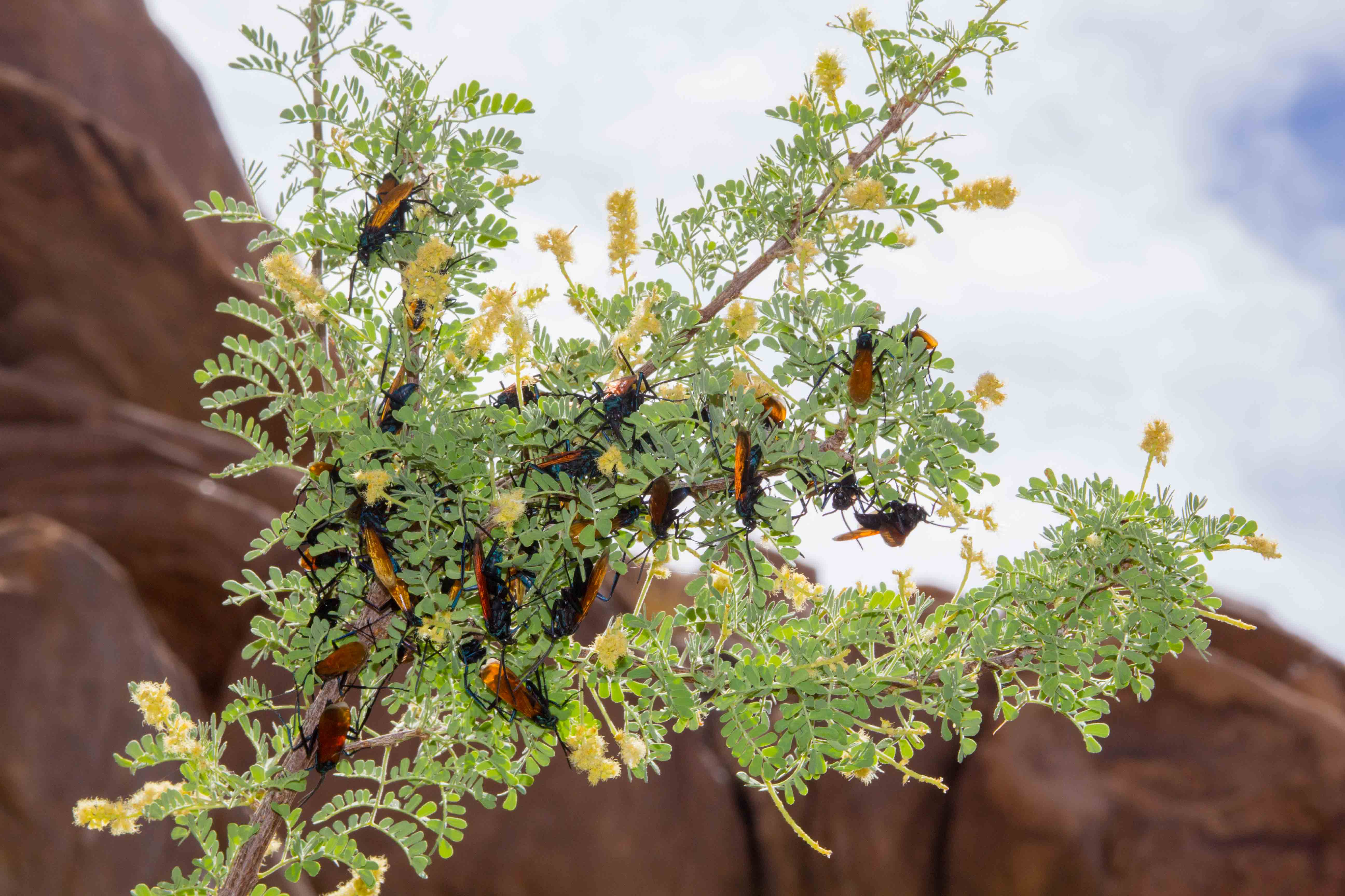 Tarantula Hawk Wasps eating or hilltoping @Keyhole Canyon, NV July 1, 2013